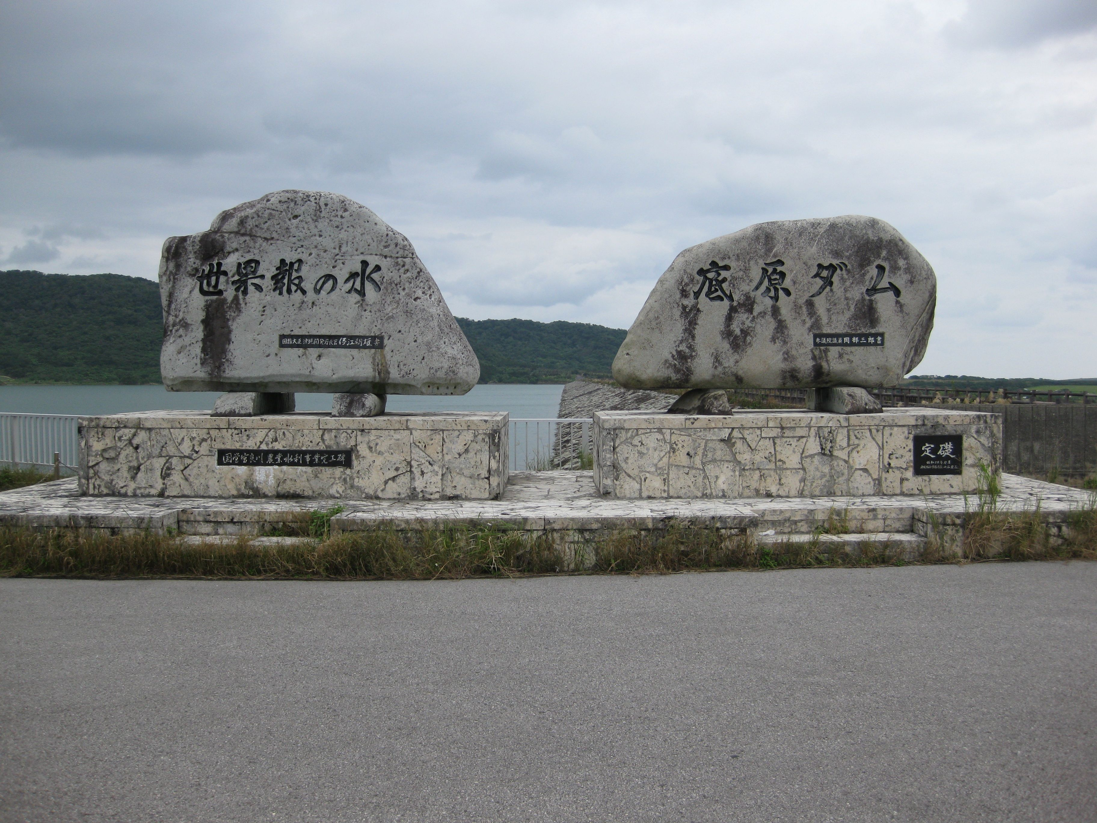 Monuments of Sokobaru Dam in Okinawa, Japan